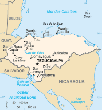 Map in French of Honduras